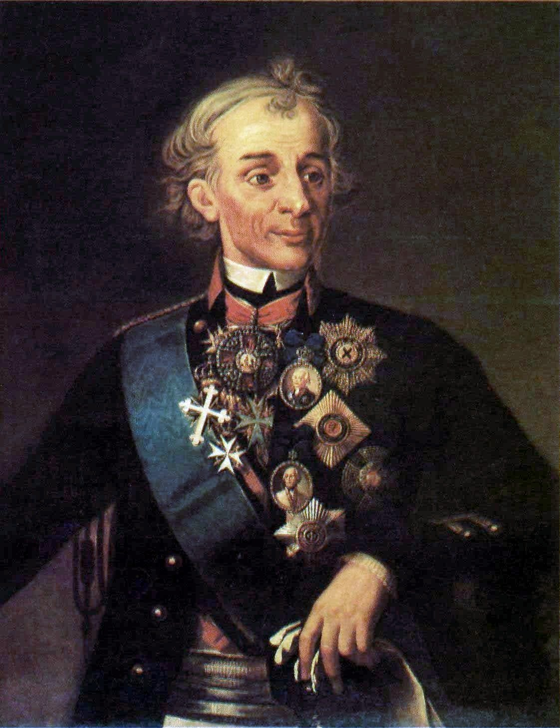 Alexander Vasilievich Suvorov (1730-1800), Russian generalissimo, count and prince. Artist George Dawe, painted no later than 1830. Suvorov is depicted in his uniform of the Preobrazhensky Regiment worn during the reign of Paul I of Russia. Awards on the portrait are as follows (from left to right and from top to bottom): Order of St. Anna (awarded September 30, 1770) portrait of the Emperor Paul I of Russia (awarded July 13, 1799) Star of the Order of St. Andrew the First-Called (awarded September 9, 1787) Order of Saints Maurice and Lazarus (awarded June 23, 1799) Badge of the Order of the Black Eagle (awarded December 7, 1794) Star of the Order of St. George, 1st class (awarded October 18, 1789) Grand Cross of the Order of St. John of Jerusalem (awarded February 9, 1799) portrait of Francis II, Holy Roman Emperor (awarded December 25, 1794) Order of Maria Theresa (awarded October 12, 1799) Star of the Order of St. Vladimir, 1st Class (awarded July 28, 1783) The blue sash stretching from the right shoulder to waist is that of the Order of St. Andrew the First-Called. Under the blue sash, the orange sash with three black stripes of the Order of St. George is visible. Portrait hosted in Suvorov's museum in Saint Petersburg.